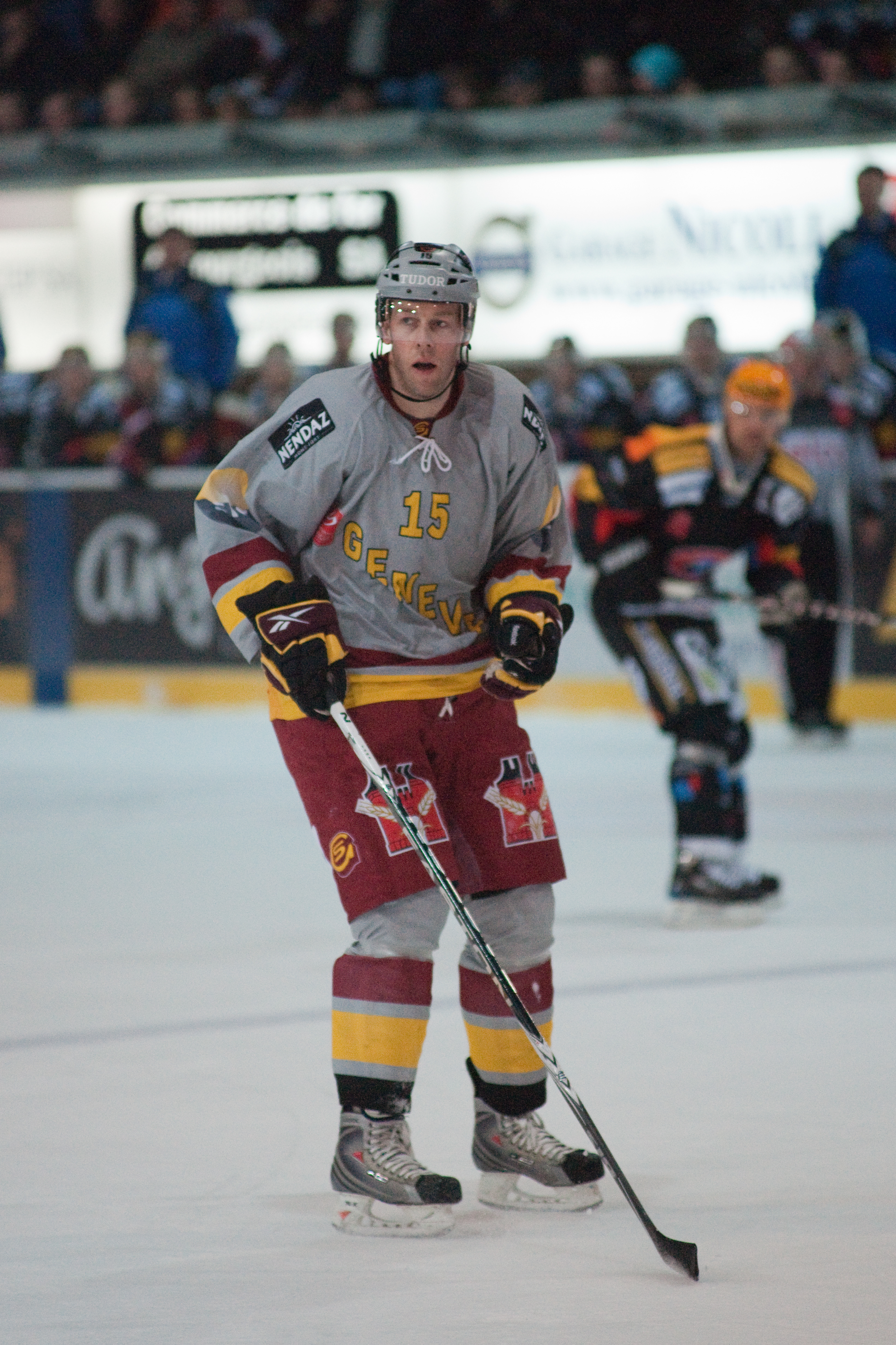 The making of this document was supported by Wikimedia CH. (Submit your project!) For all the files concerned, please see the category Supported by Wikimedia CH.